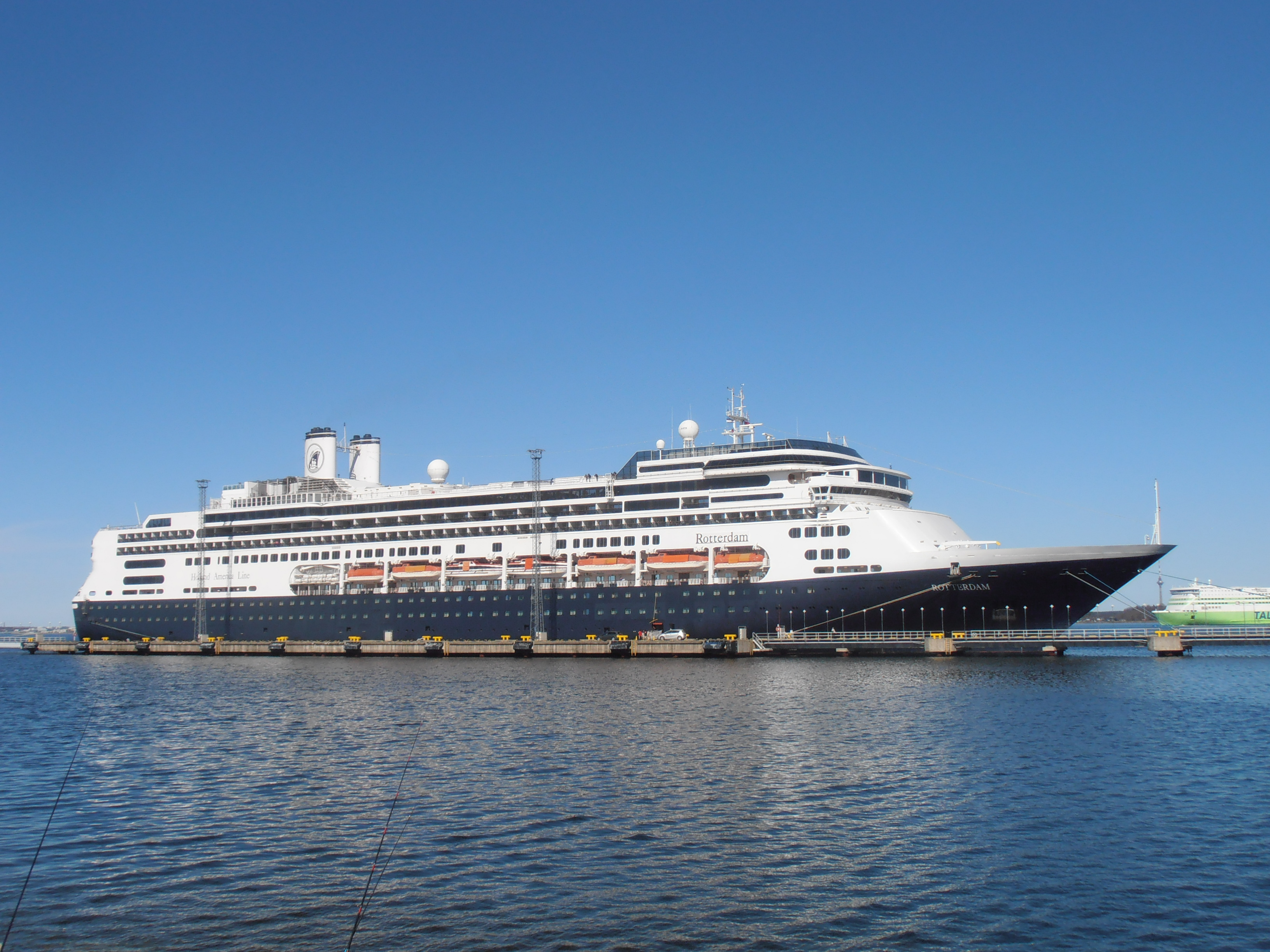 Cruise ship Rotterdam at Pier 25 Tallinn 3 May 2013Eesti: Ristluslaev Rotterdam kai 25 ääres Tallinnas 3. mail 2013